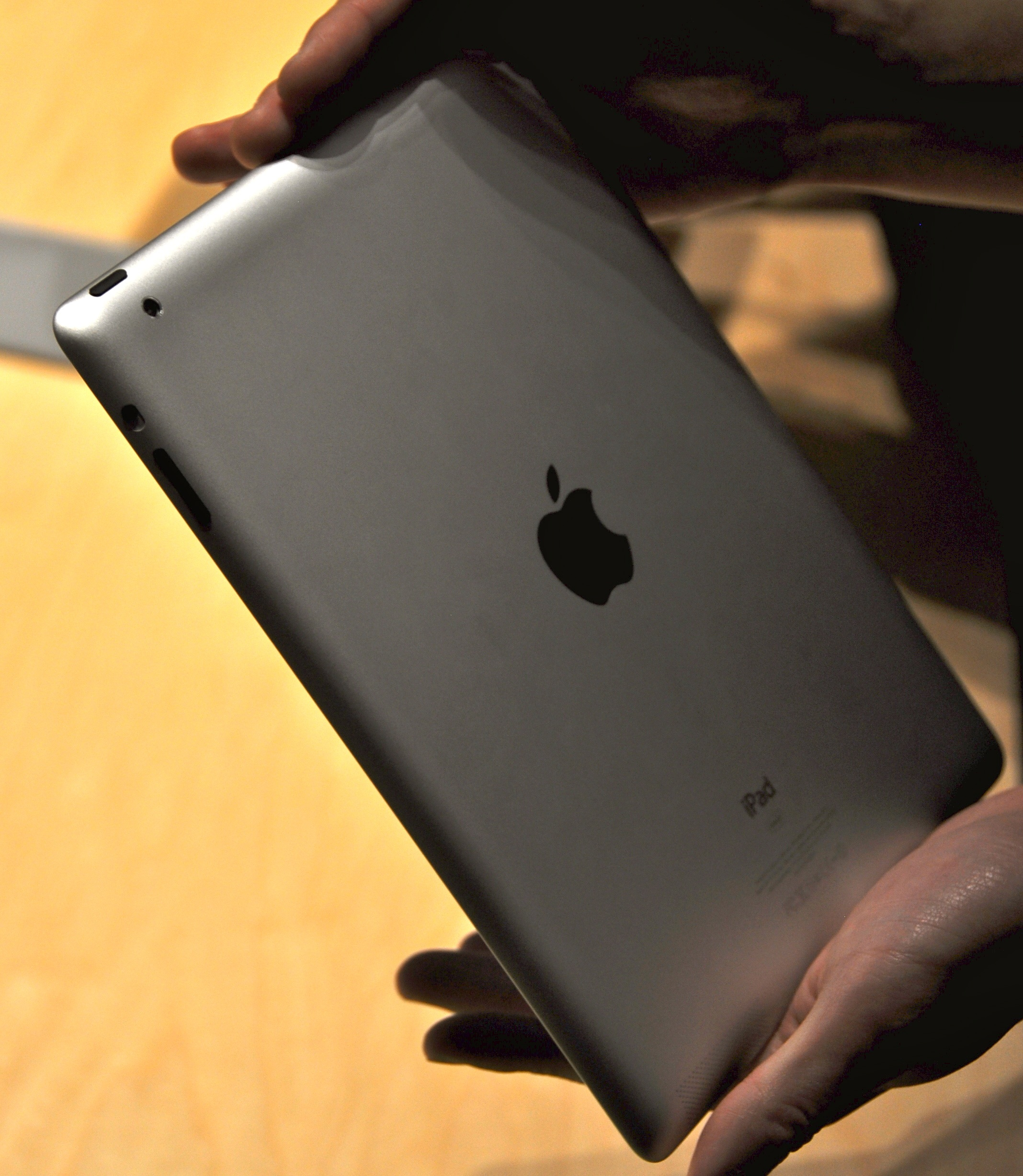 Rear of iPad 2 at Apple's first product demo